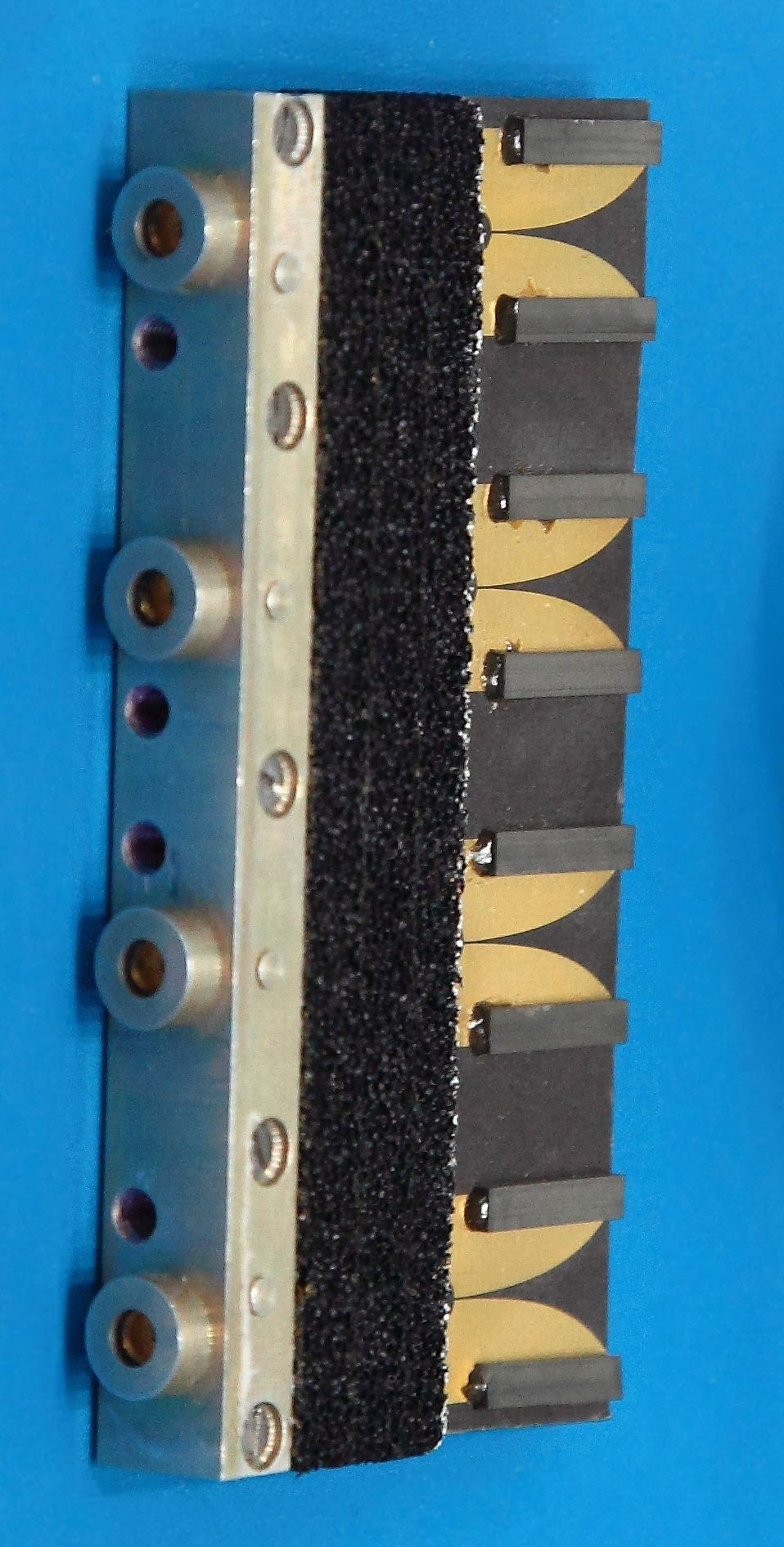 Linear array of four Vivaldi aerials